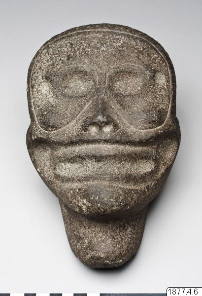 Taino stone zemi from Puerto Rico, donated by Justus Hjalmarsson to the Royal Swedish Academy of Sciences 1873